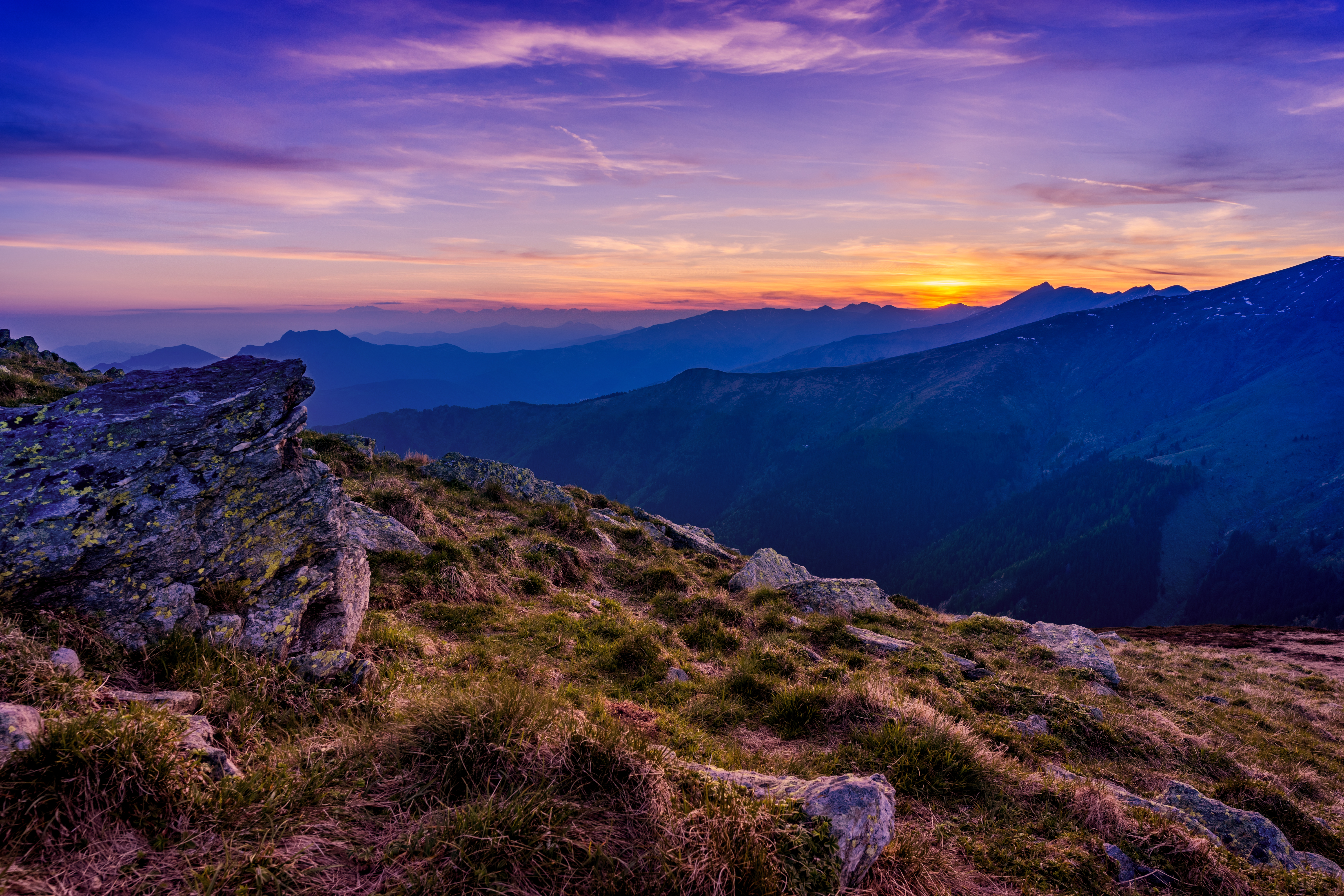 Monte Bregagno, Italy